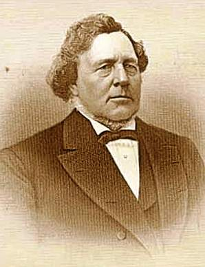 Photograph of George Albert Smith, an Apostle of the LDS Church from 26 April 1839 until his death.